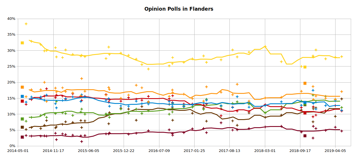 Opinion Polls in Flanders since 25 May 2014